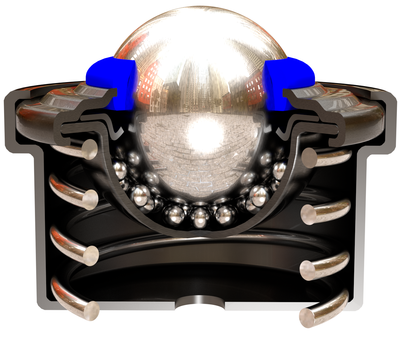 Ray-traced rendered view of a cross-section through a ball transfer unit.